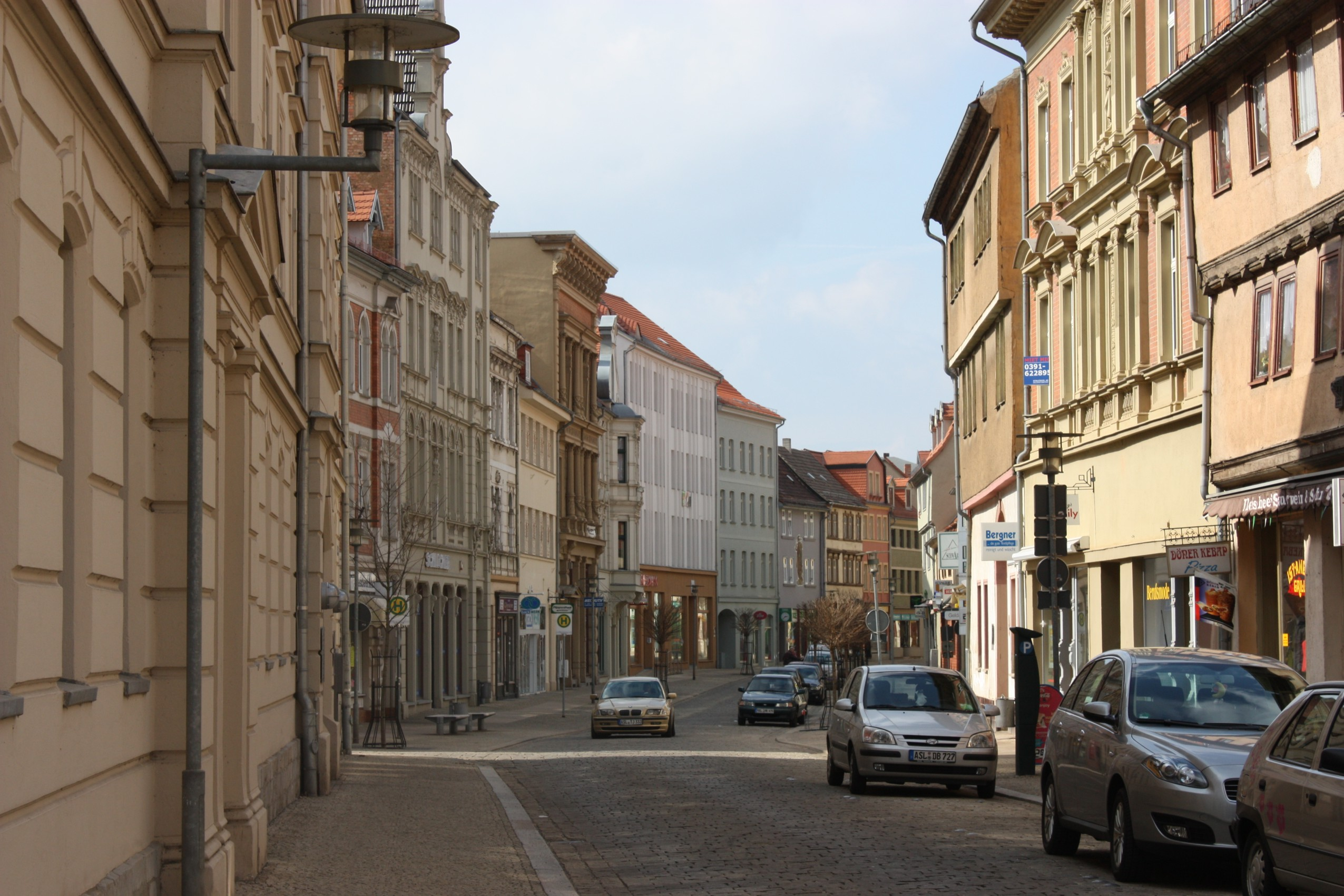 Aschersleben, the Breite Straße